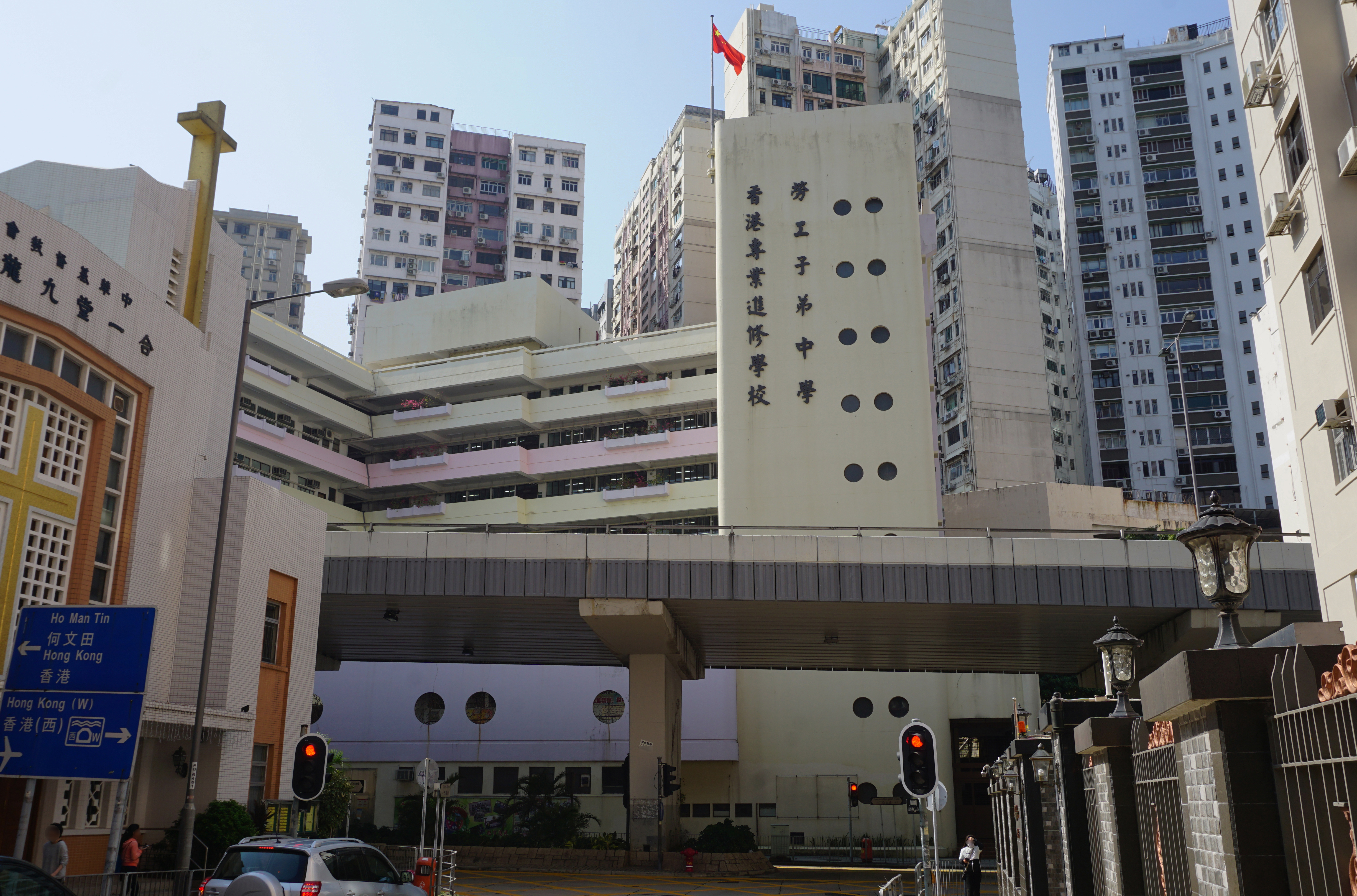 Workers' Children Secondary School in Ho Man Tin, Hong Kong.